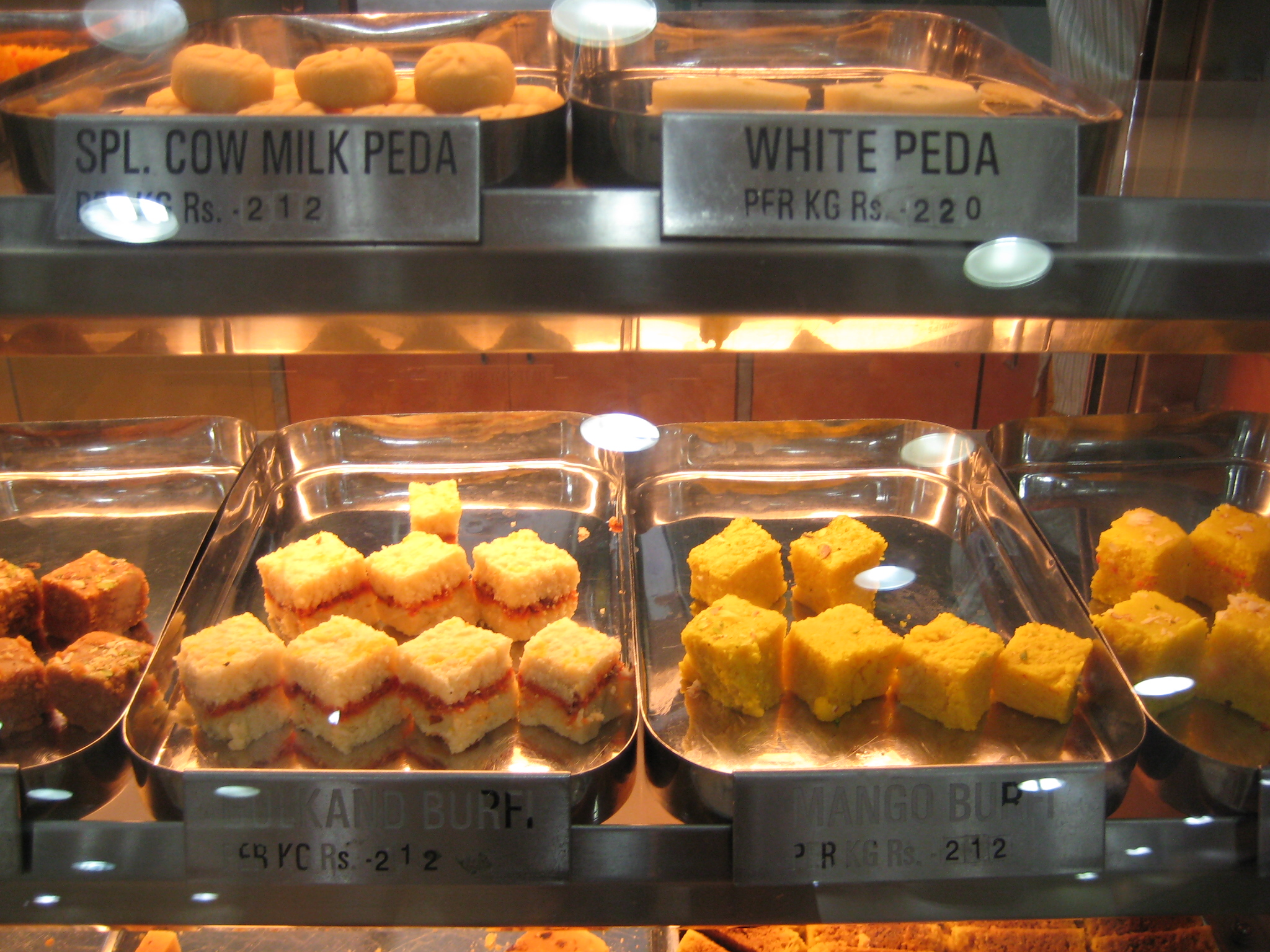 Desserts and sweets $ 2.0 per lb Chennai, India